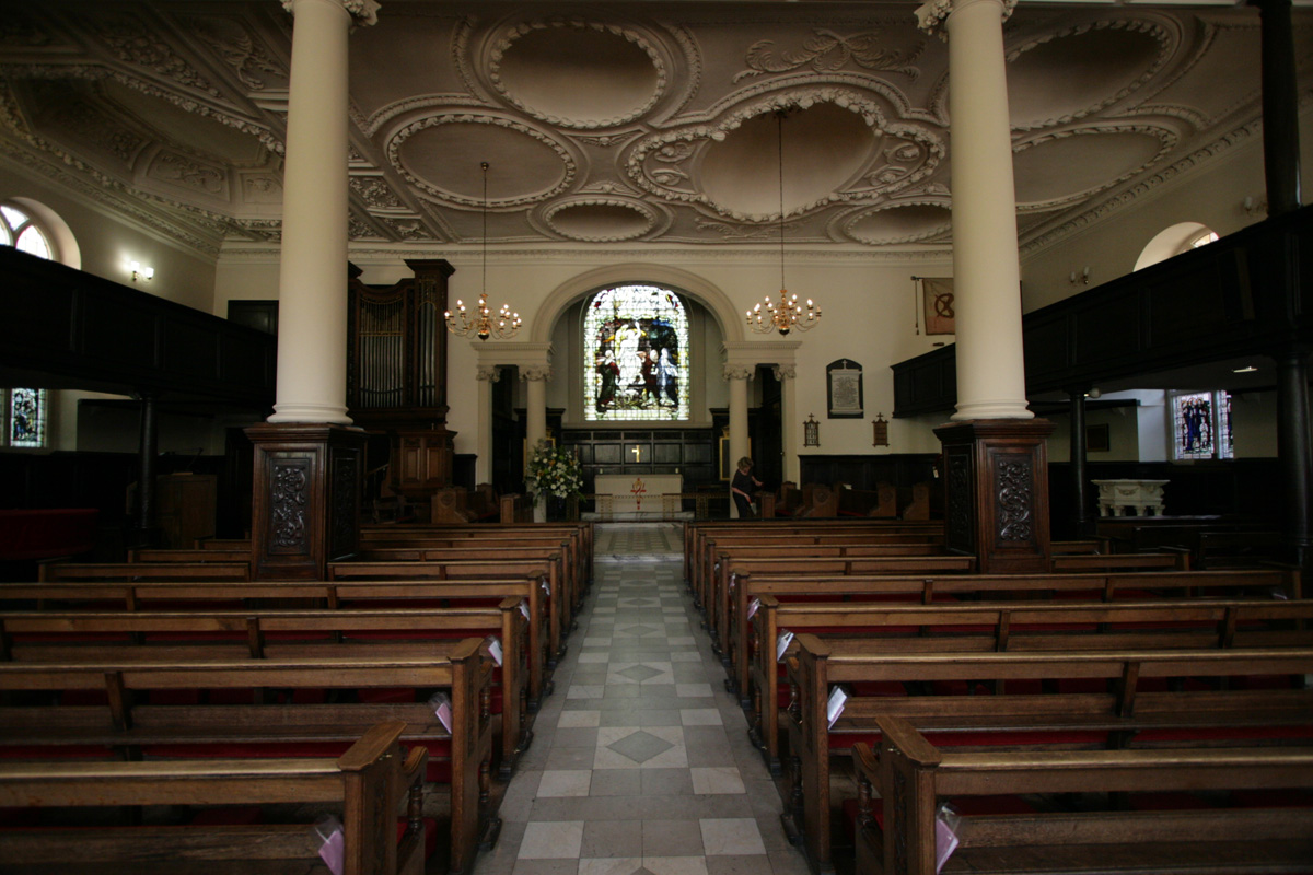 Church of King Charles the Martyr, Tunbridge Wells, taken on May 2, 2008